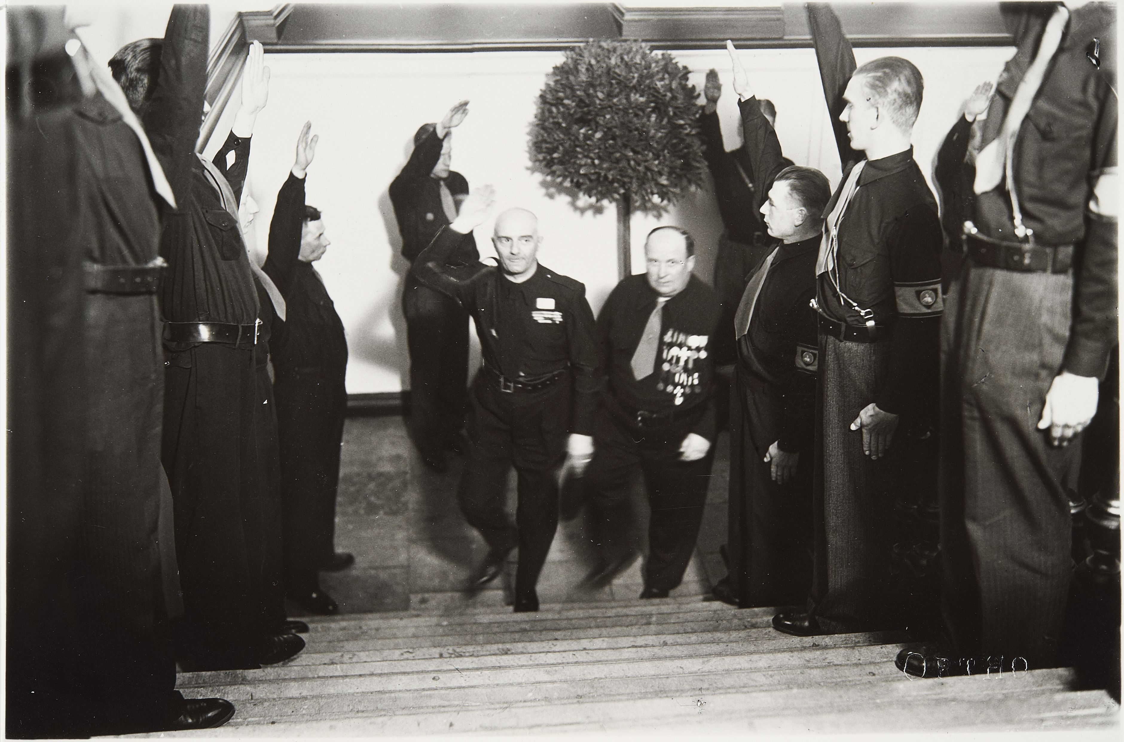 Italian fascist Ezio Maria Gray (left) with the Finnish fascist leader Vihtori Kosola entering the Musta Karhu restaurant in Helsinki.